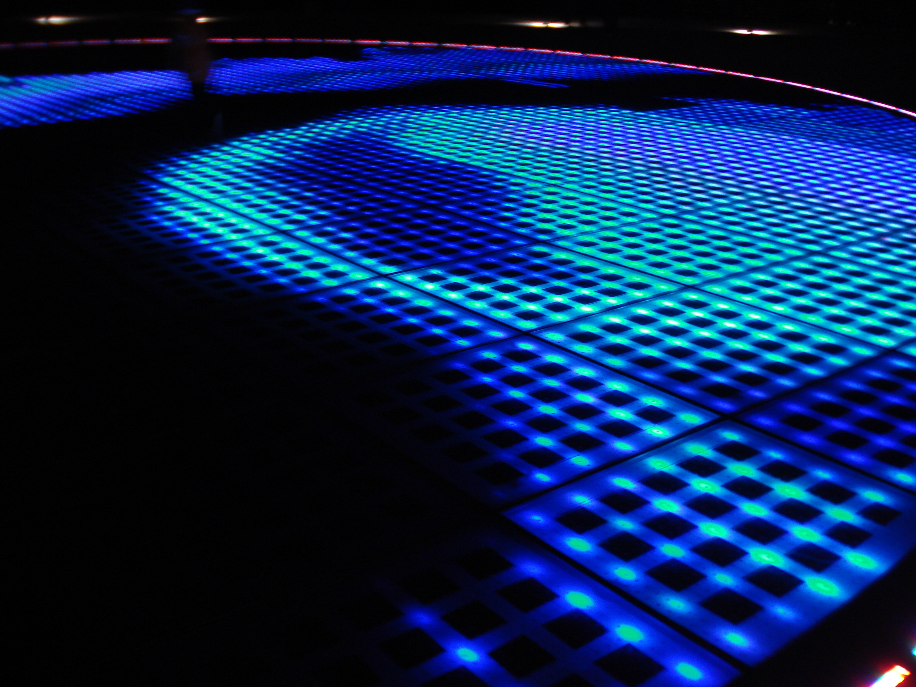 Monument to the Sun in Zadar, Croatia